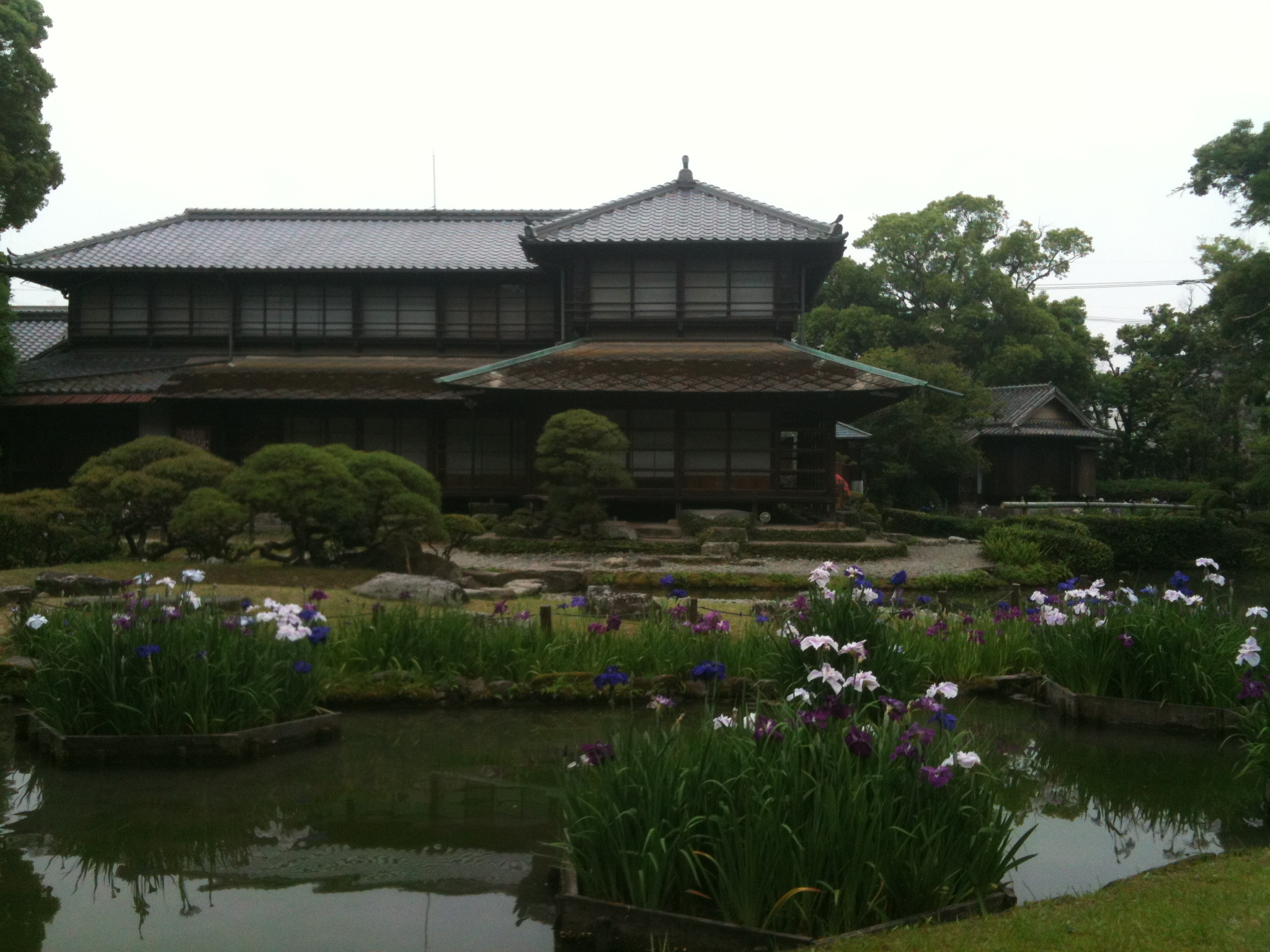 Shohinken (松浜軒) is a Matsui family residence and garden who was the leader of the Hosokawa family of Kumamoto, located in Yasushiro city, Kumamoto Prefecture, Japan.